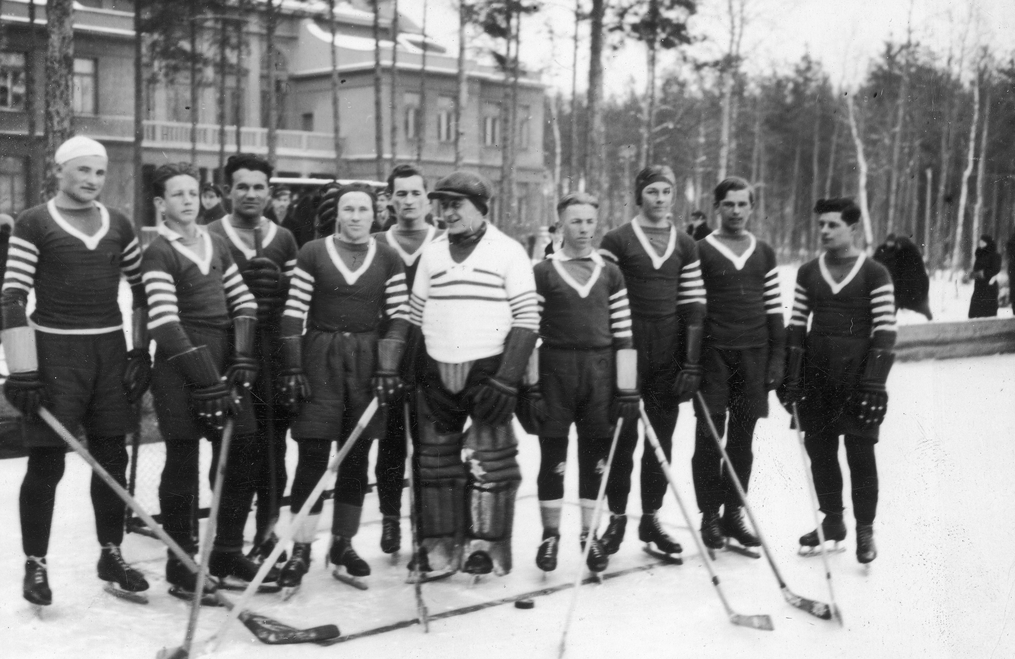 Proch Pionki ice hockey team